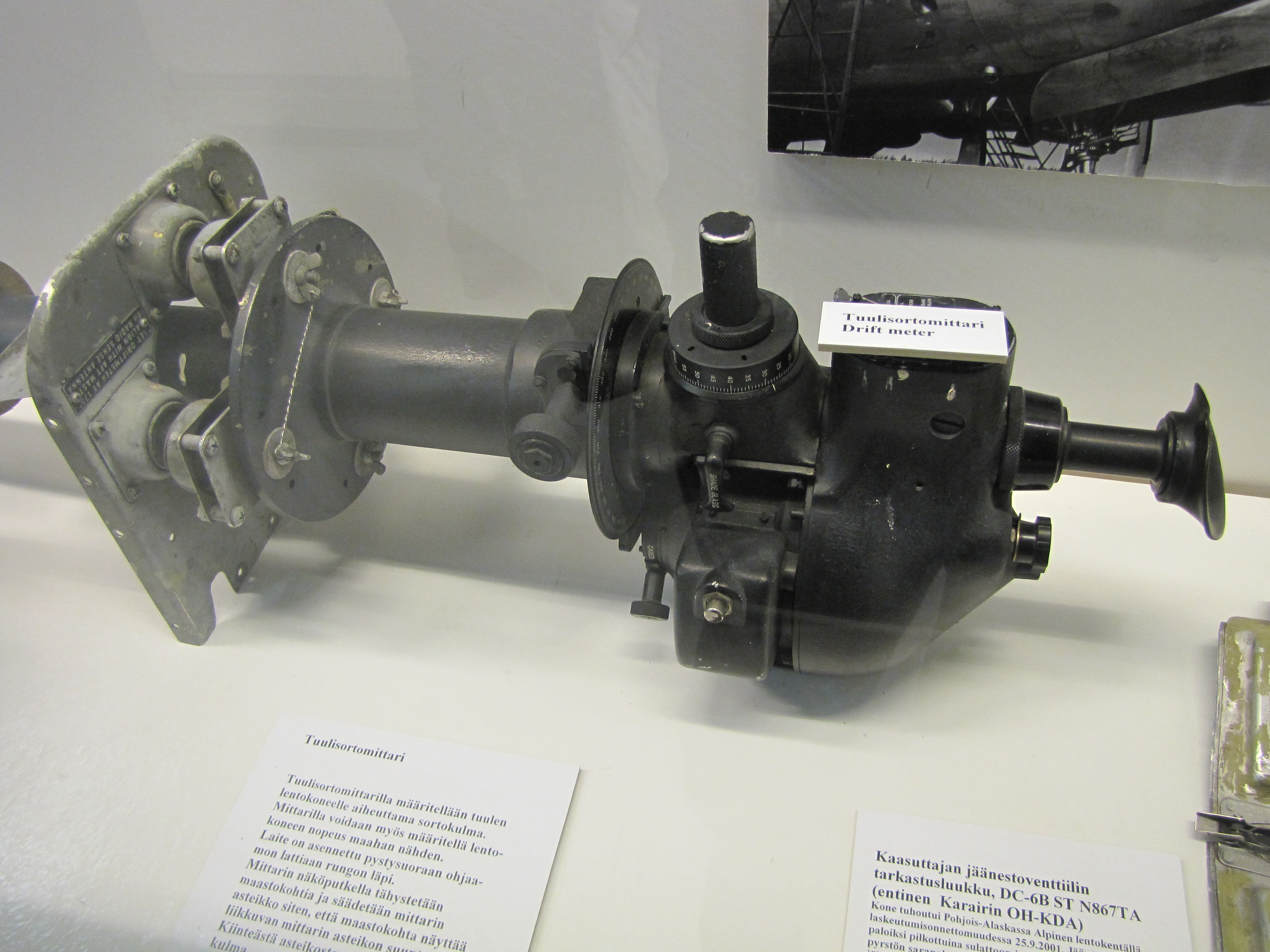 Drift meter in Finnish Aviation Museum. Originally part of DC-6B (OH-KDC).